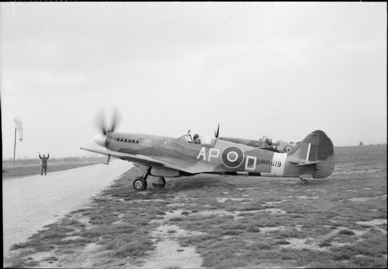 Aircraft of the Royal Air Force, 1939-1945- Supermarine Spitfire. Spitfire F Mark XIV, RM619 ‘AP-D’, taxying to the perimeter track at Lympne, Kent for an early morning patrol over Holland. Although still displaying the unit code letters of No. 130 Squadron RAF, RM619 had in fact been transferred to No. 350 (Belgian) Squadron RAF.